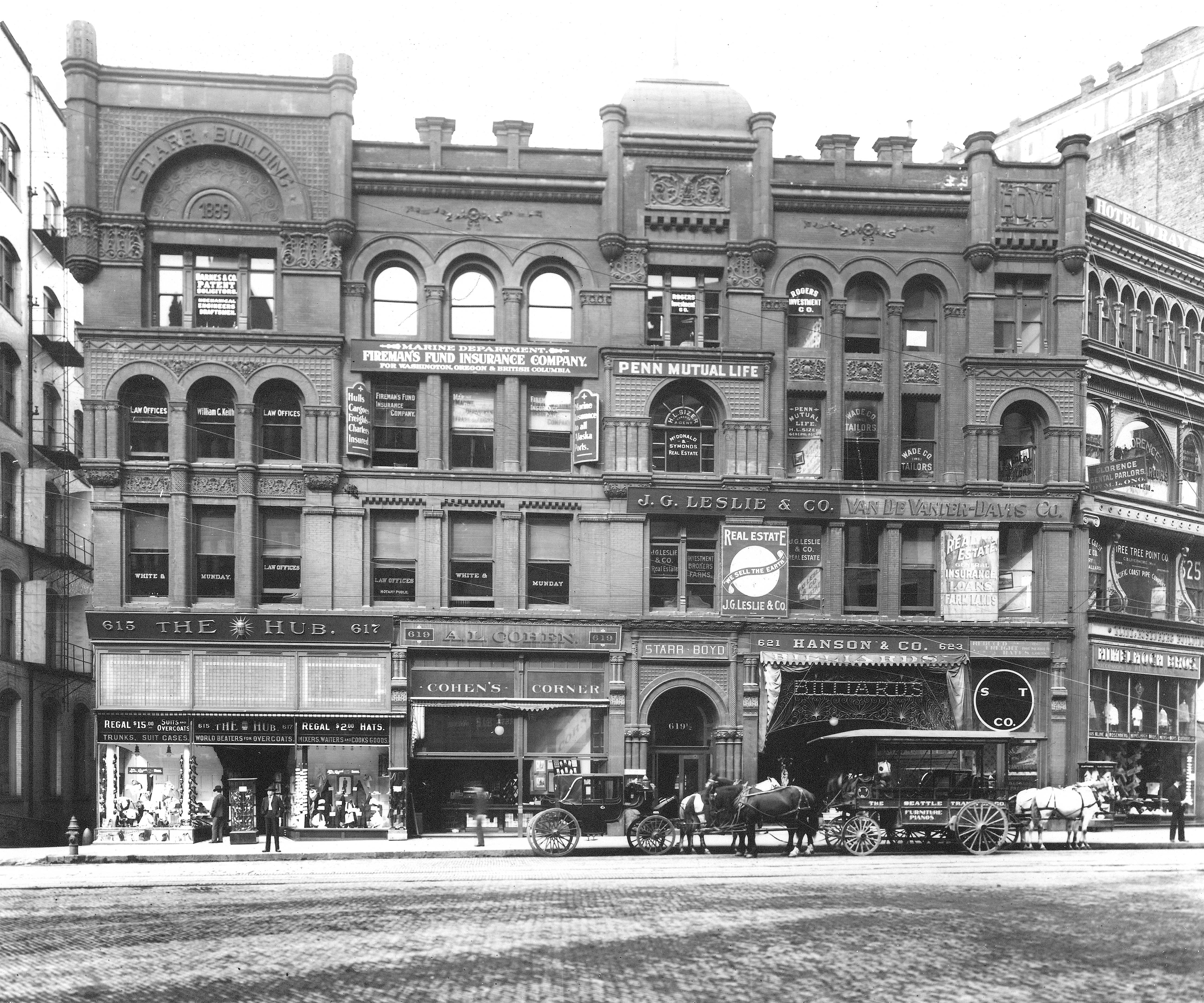 Depicts several businesses: Penn Mutual Life Insurance Co., The Hub Clothing Store, J.G. Leslie & Co. (real estate), Morrison Billiard Parlor, Fireman's Fund Insurance Co., and Hotel Wray. K&R Building at the right. Subjects (LCTGM): Buildings--Washington (State)--Seattle; Stores, Retail--Washington (State)--Seattle Subjects (LCSH): Starr-Boyd Building ; Starr Building ; Hub (Firm) ; Penn Mutual Life Insurance Company ; J.G. Leslie & Co. ; Morrison Billiard Parlor ; Fireman's Fund Insurance Companies ; Hotel Wray